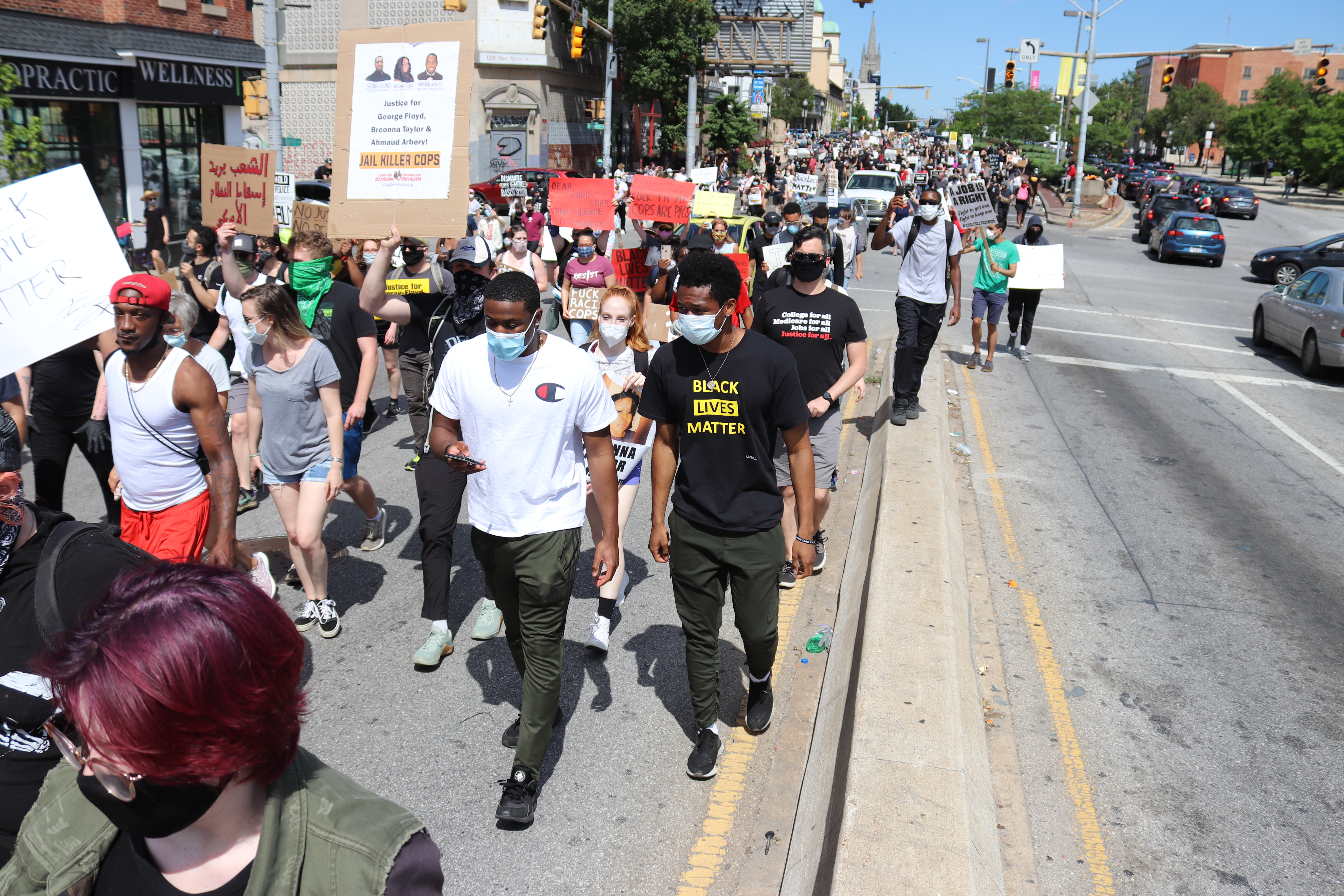 National Day of Protests Against Racism & Political Repression Caravan / March along West North Avenue at North Howard Street in Baltimore, Maryland on Saturday afternoon, 30 May 2020 by Elvert Barnes Photography Follow People's Power Assembly Baltimore event page at Elvert Barnes Saturday, 30 May 2020 NDOP docu-project at Elvert Barnes Corona Virus COVID-19 Pandemic Project at Elvert Barnes BMORE 2020 docu-project at